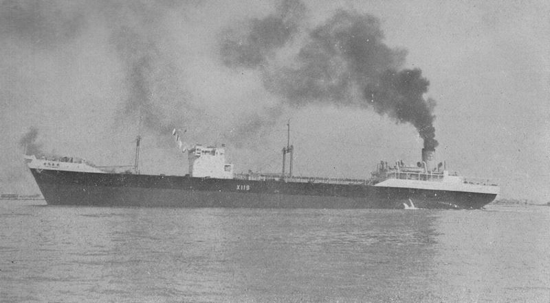 Nippon Yusosen K.K. oiler Seria Maru (Imperial Japanese Army Type 2TL wartime standard ship)